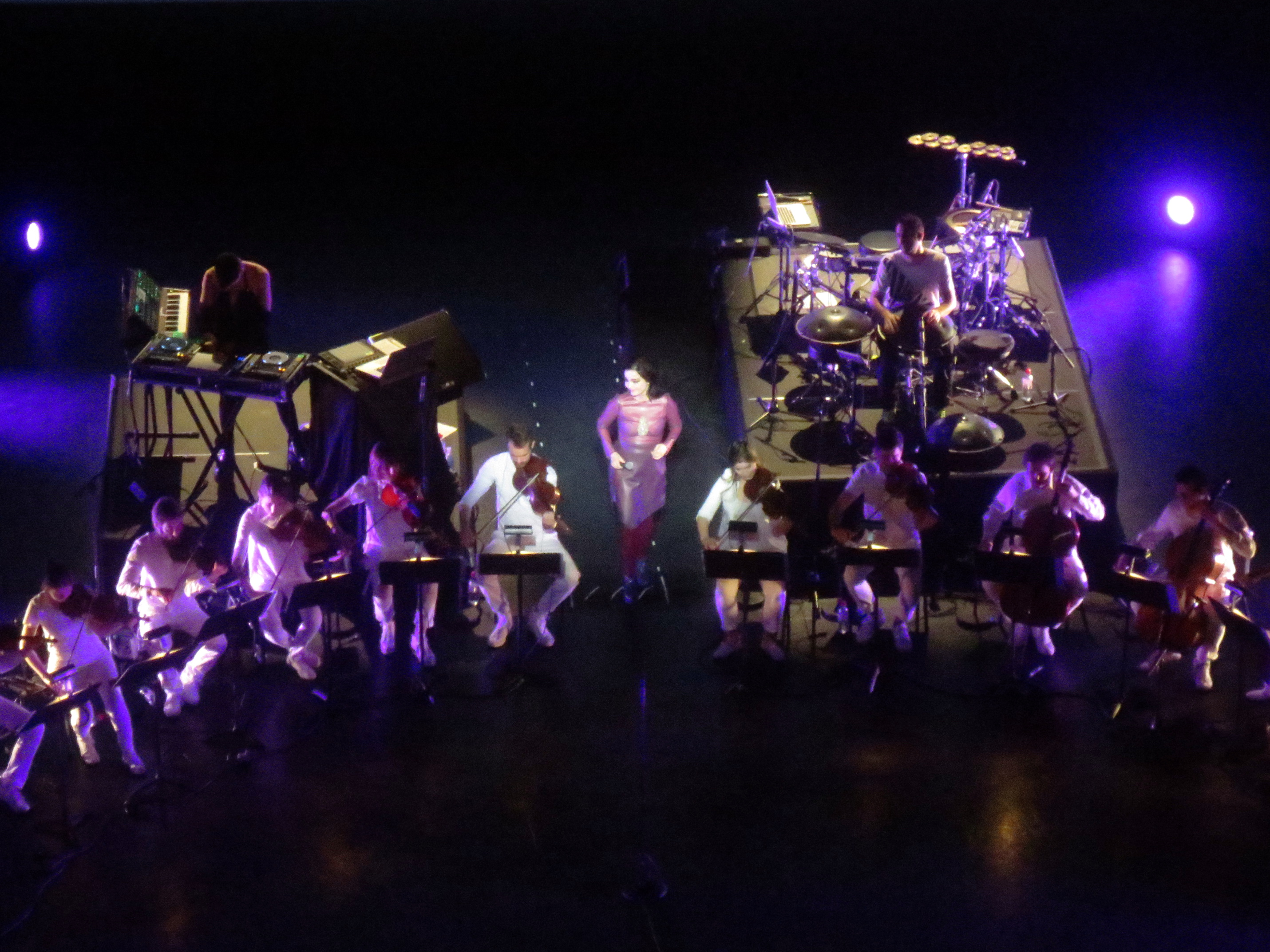 Björk @ New York City Center, New York, 04/01/2015